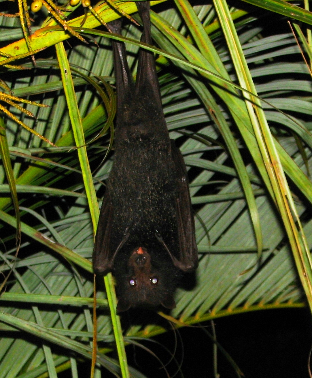 Black Flying Fox found in Central Queensland, Australia